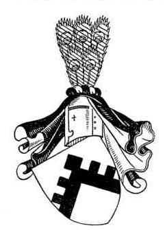 coat of arms of the family von der Ropp from Oskar Stavenhagen: Genealogisches Handbuch der kurländischen Ritterschaft, Görlitz 1937, p. 907